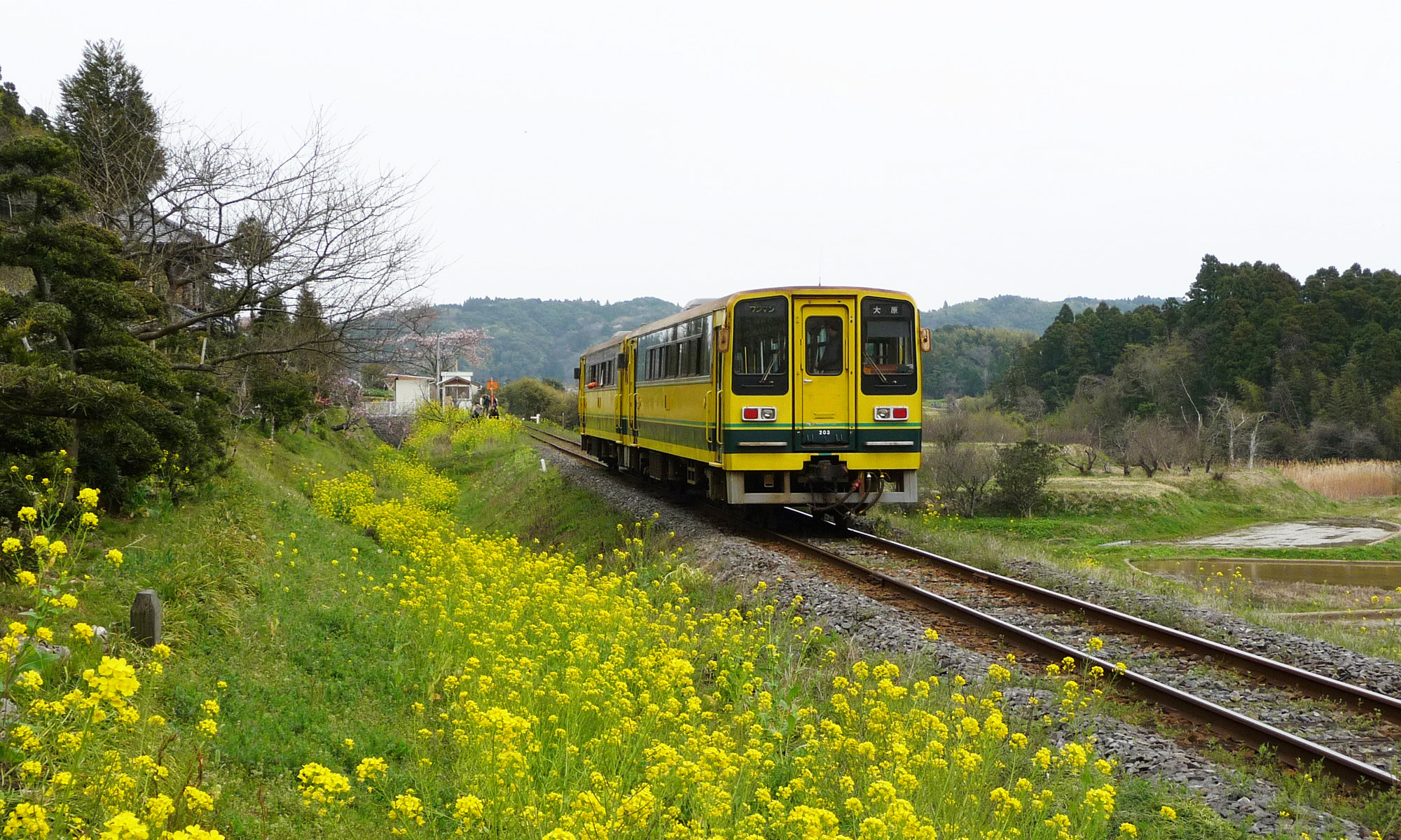 Isumi Railway train at Higashi-Fusamoto.